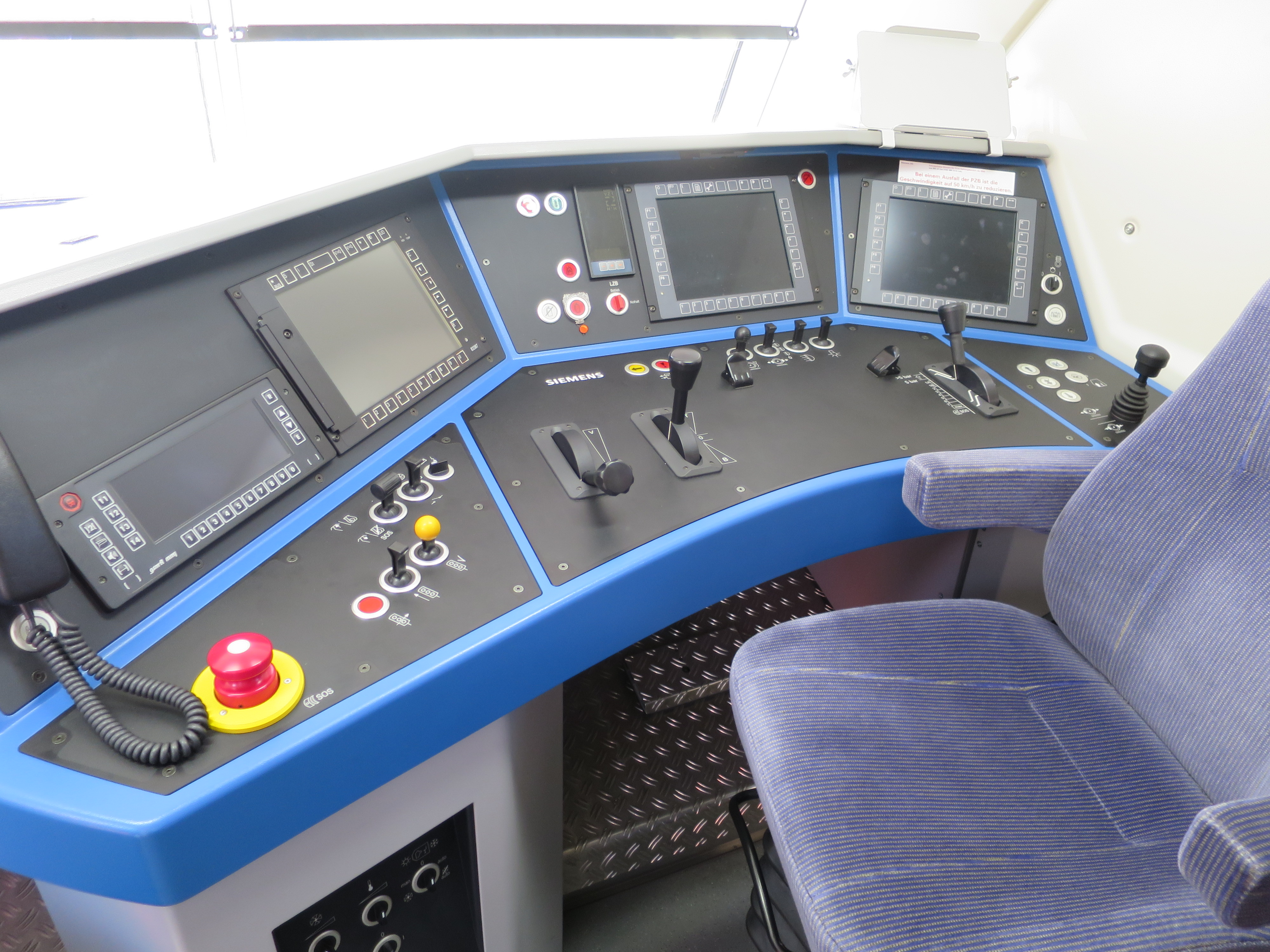 The making of this document was supported by Wikimedia Polska Association, within Wikigrant no. WG 2017-44. Siemens Vectron 193 895-0